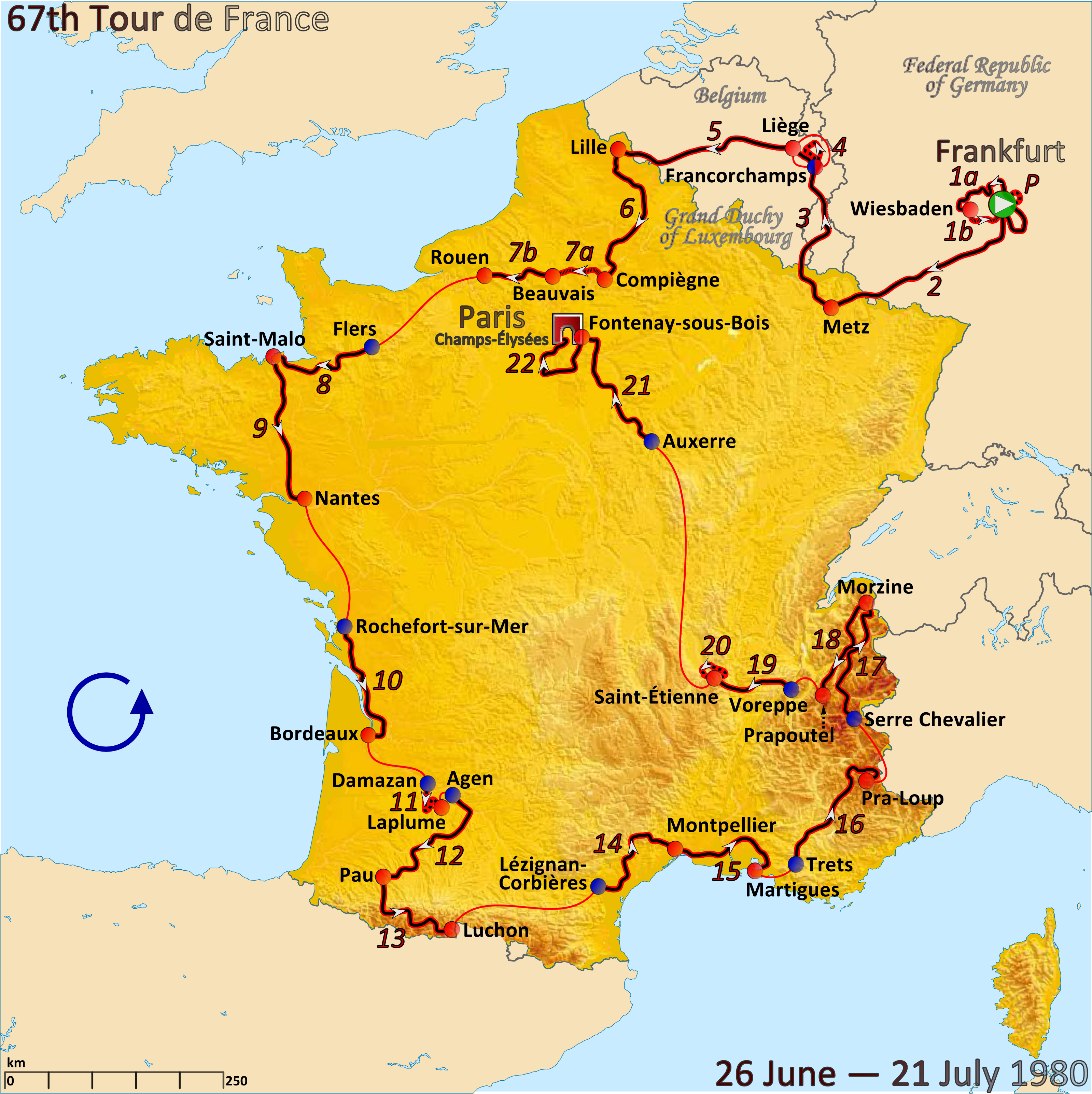 Map of the 1980 Tour de France created in Inkscape using accurate stage maps from touratlas.nl.